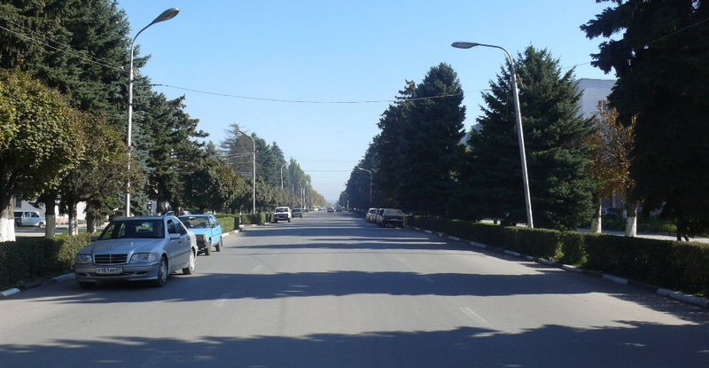 Main street of Terek